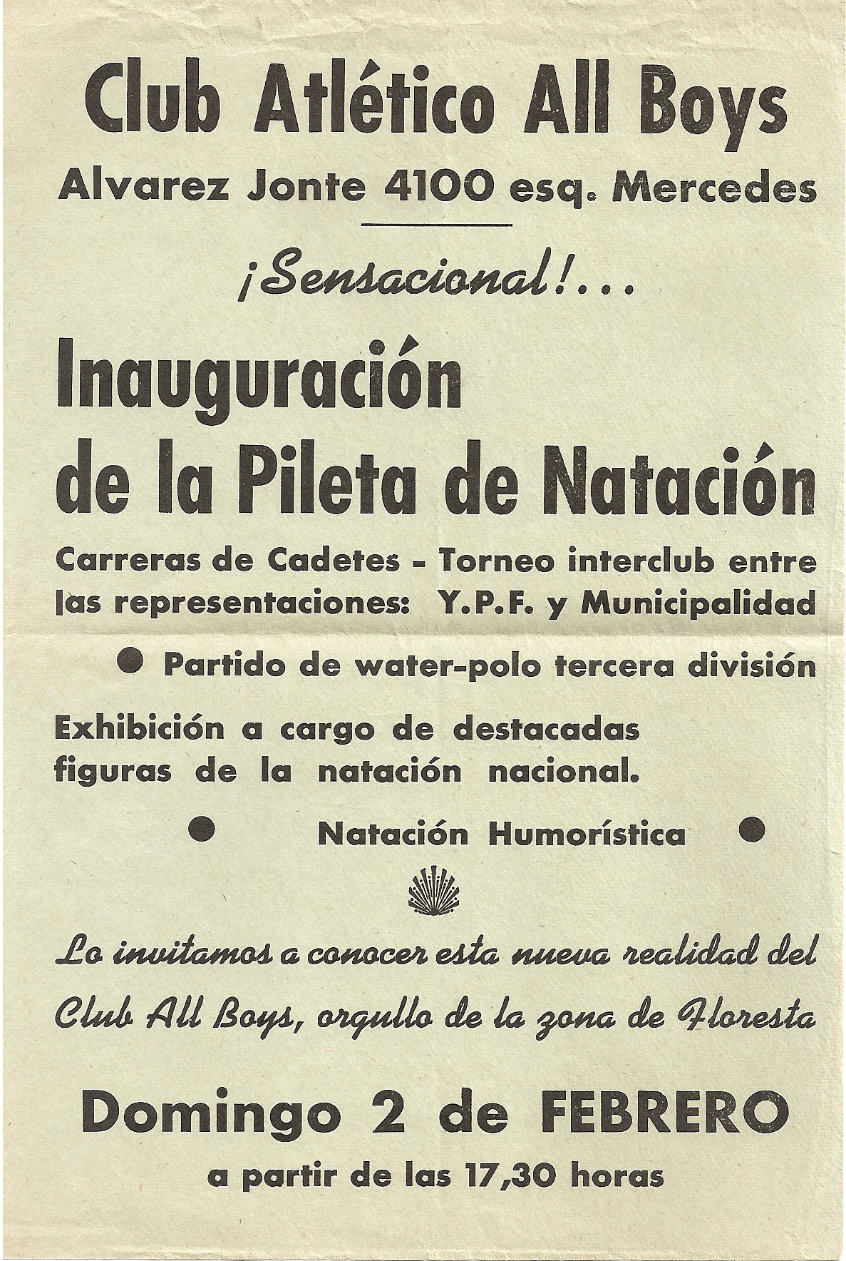 Advertisement by C.A. All Boys of Buenos Aires, promoting their activities.